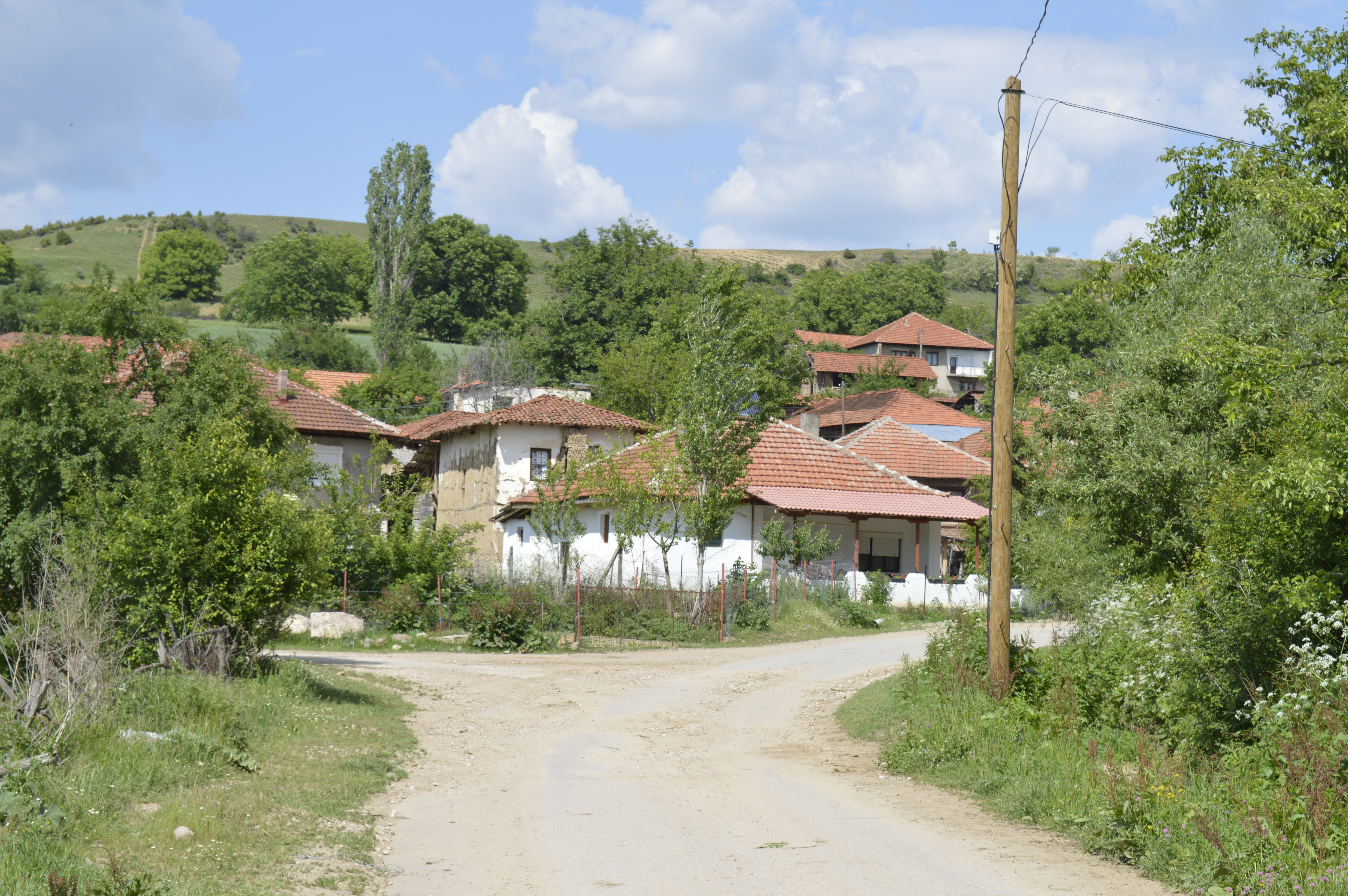 View of the village Virče